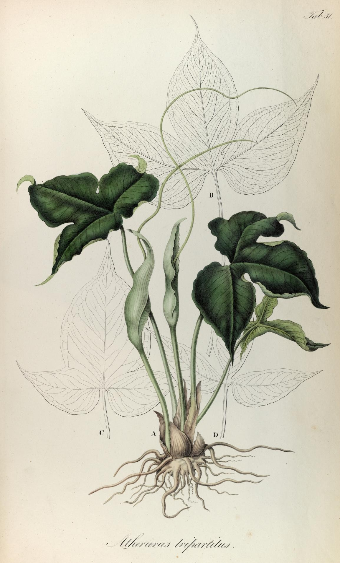 Z^:J/. VSSY/SYSJ //'///rf/'/f/sYJ